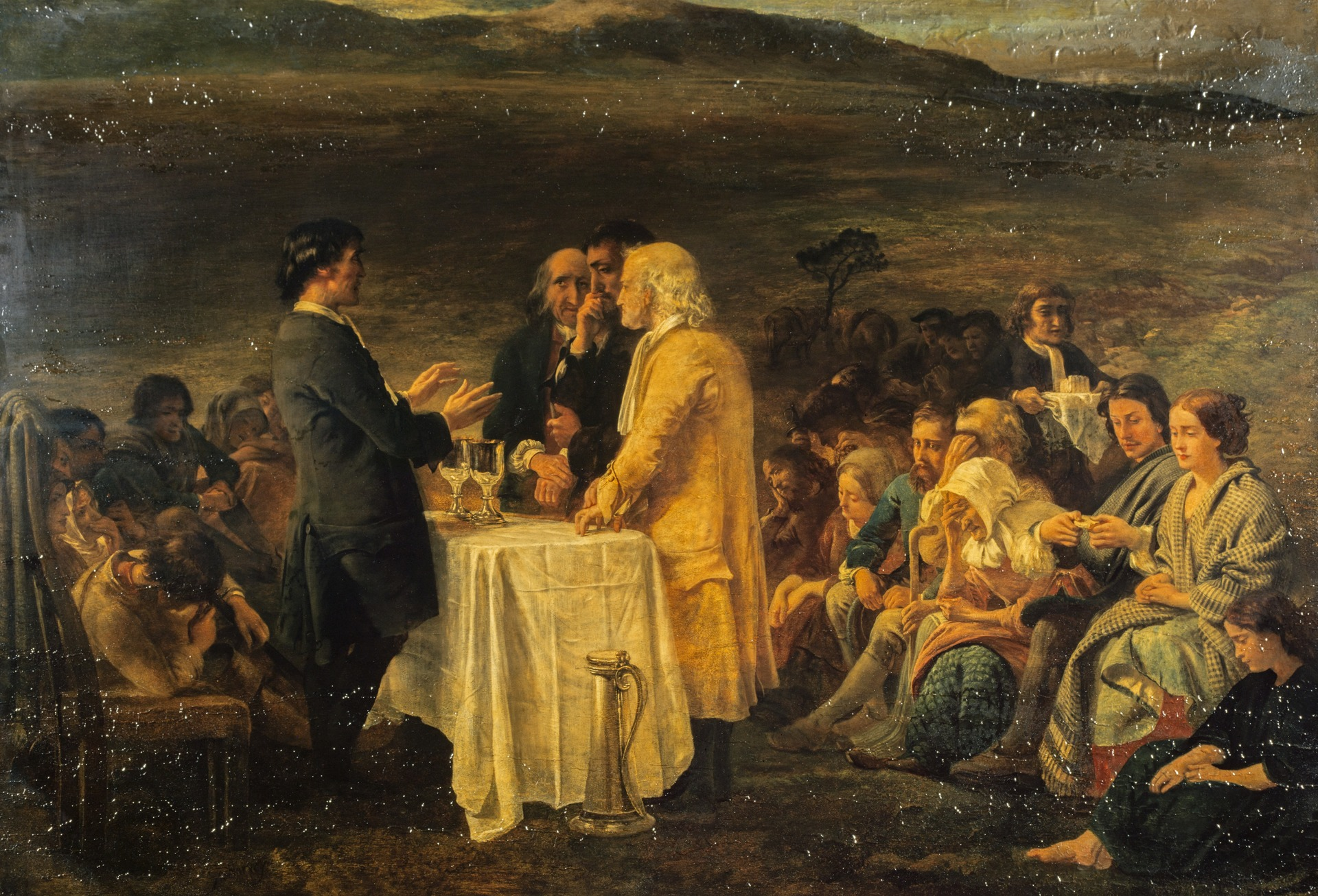 Sir George Harvey title: The Covenanters' Communion accession number: NG 608 artist: Sir George HarveyScottish (1806 - 1876) gallery: In Storage object type: Painting materials: Oil on panel date created: by 1840 measurements: 98.30 x 114.00 cm (framed: 111.70 x 147.30 x 9.40 cm) credit line: Presented by William Forrester to the RSA 1874; transferred and presented 1910